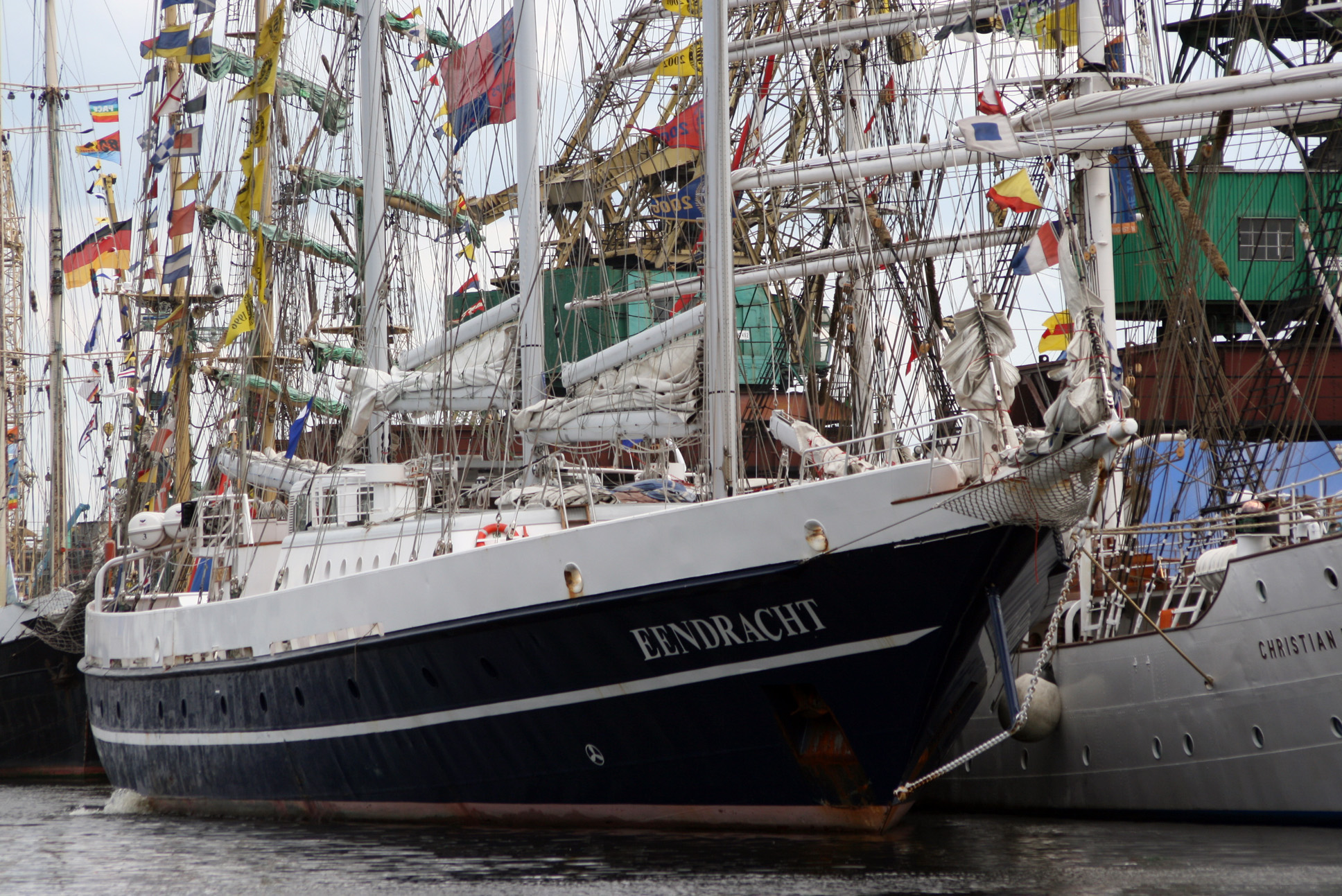 Eendracht, The Tall Ships' Races, Szczecin 2007